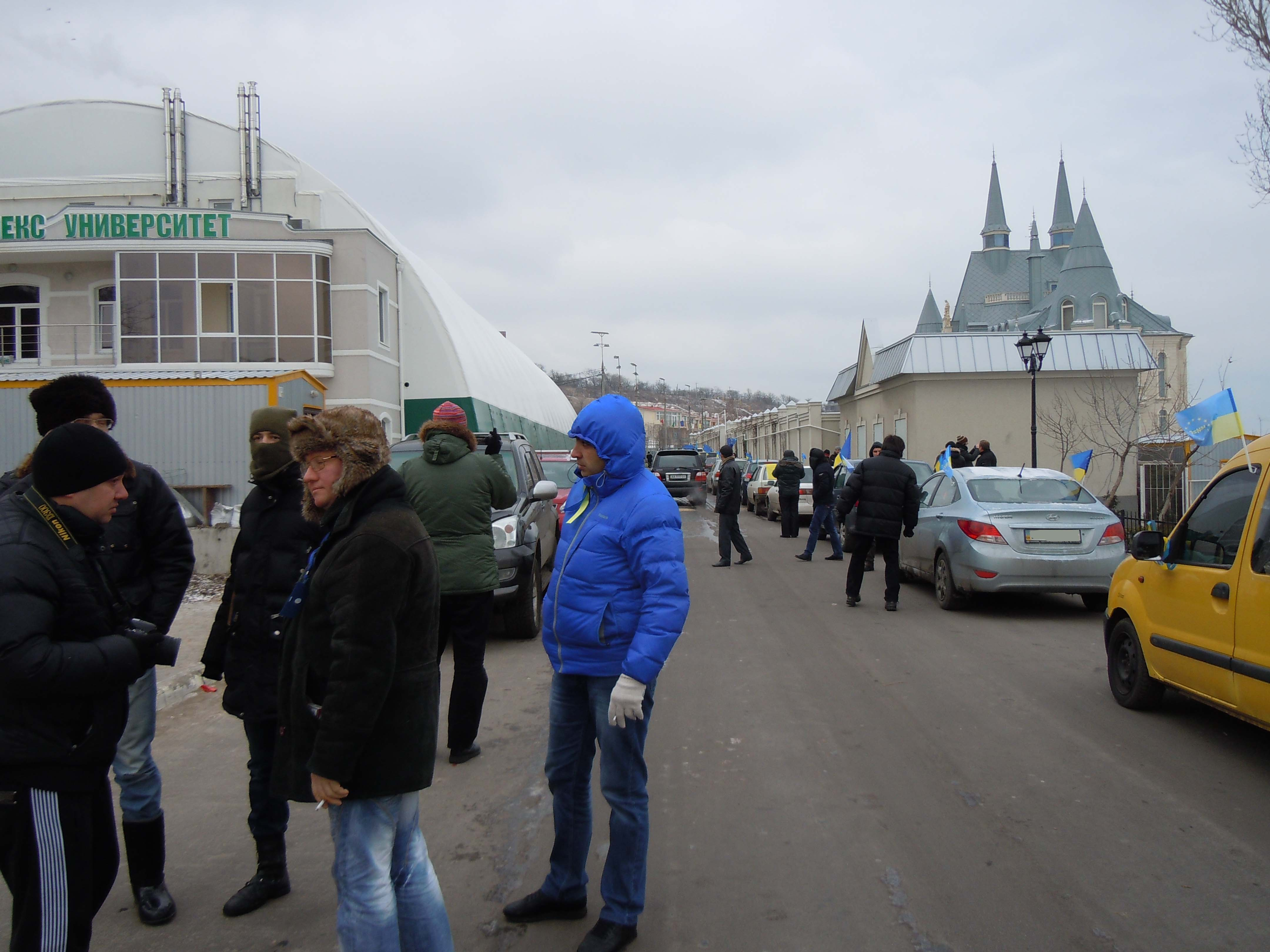 The procession Odessa AutoMaidan near the "Castle" of Serhiy Kivalov, 11 Station of Velykyi Fontan, Odessa. The castle of Kivalov (also called "The House of Harry Potter") is on the right hand.